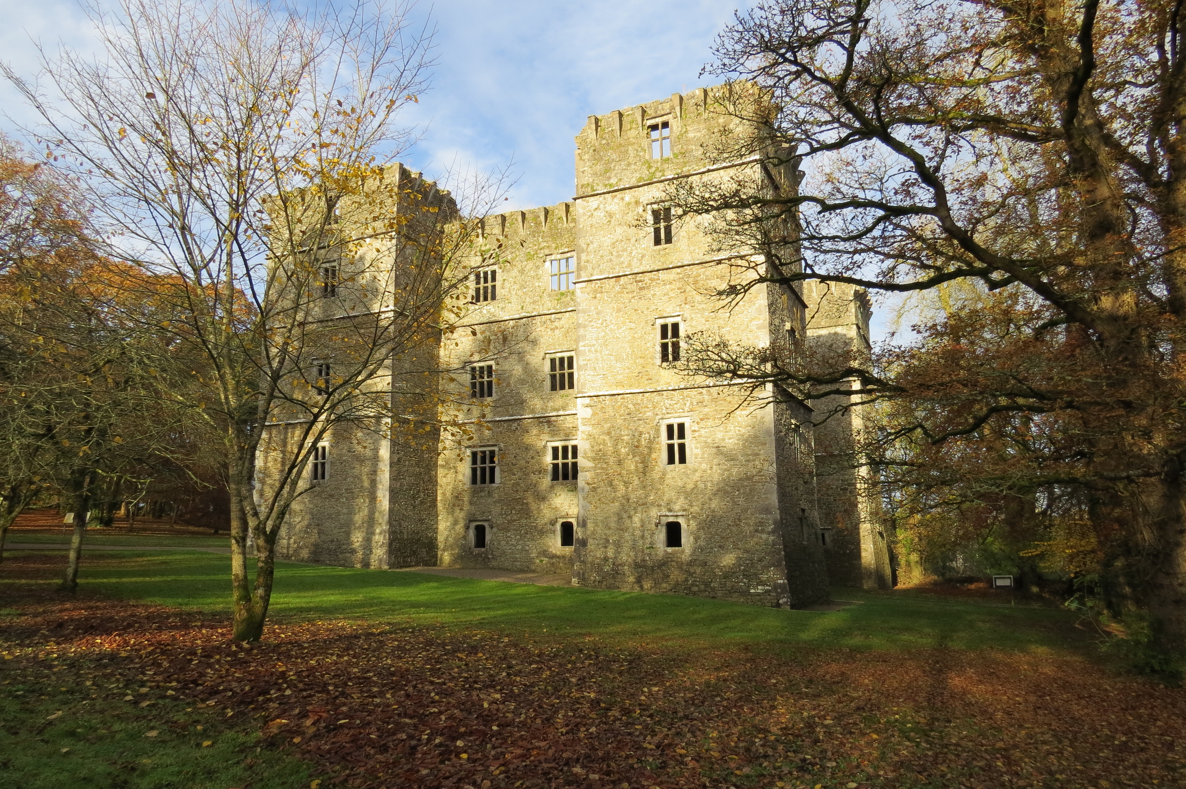 Kanturk Castle